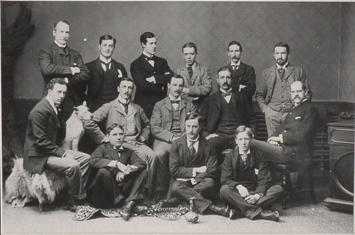 This is a team photo of the Ottawa Hockey Club in 1894. Original photo now in private collection.